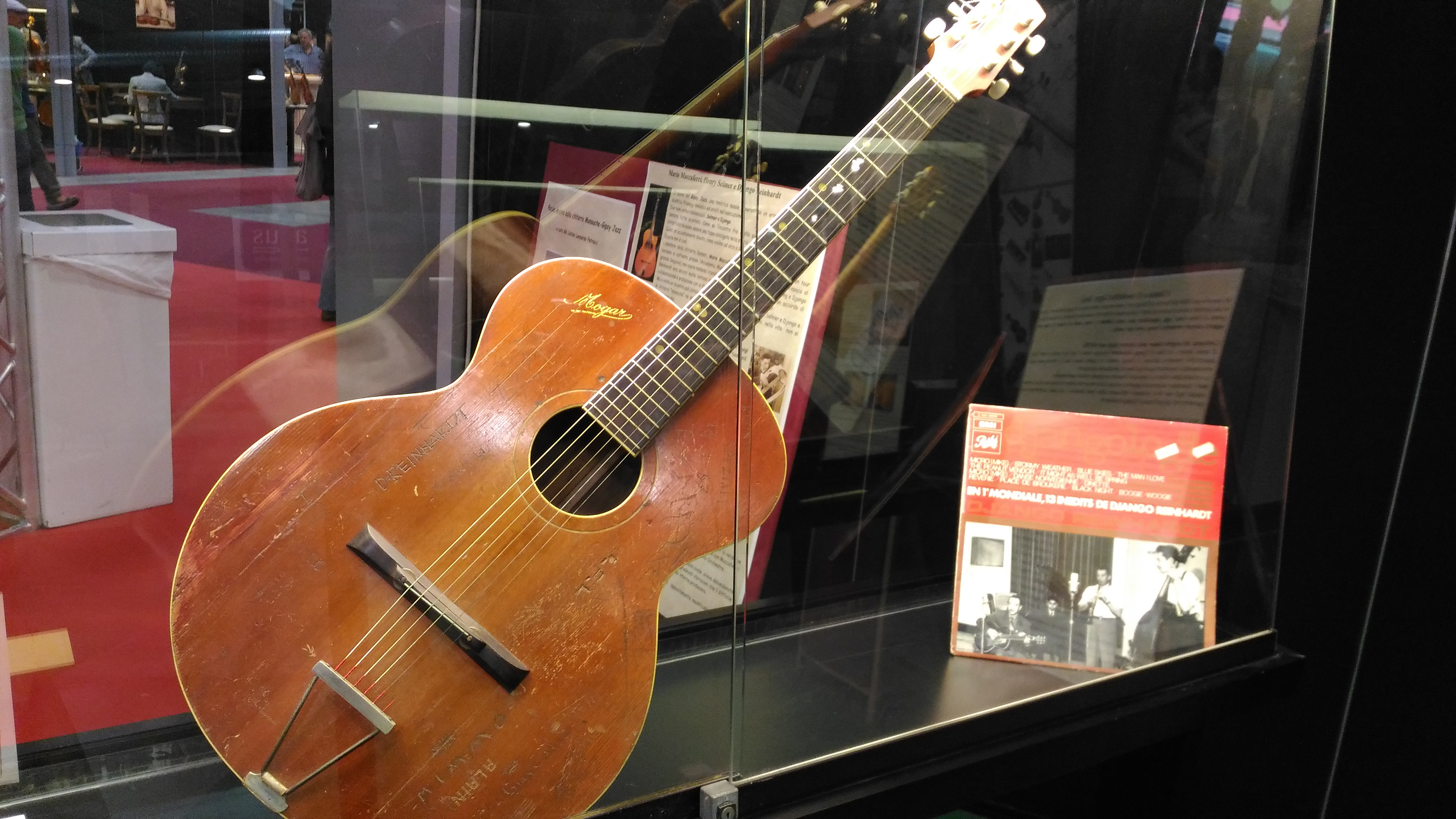 Migra. Shop window with Italian texts about Django Reinhardt, old Mogar guitar and a Django Reinhardt grammophone record cover. Cover text: Micro (Mike), Stormy weather, Blue shoes, The man I love The peanut vendor, It might as well be spring Micro (Mike), Danse norvégienne, Dinette Reverie, Black night, Boogie woogie